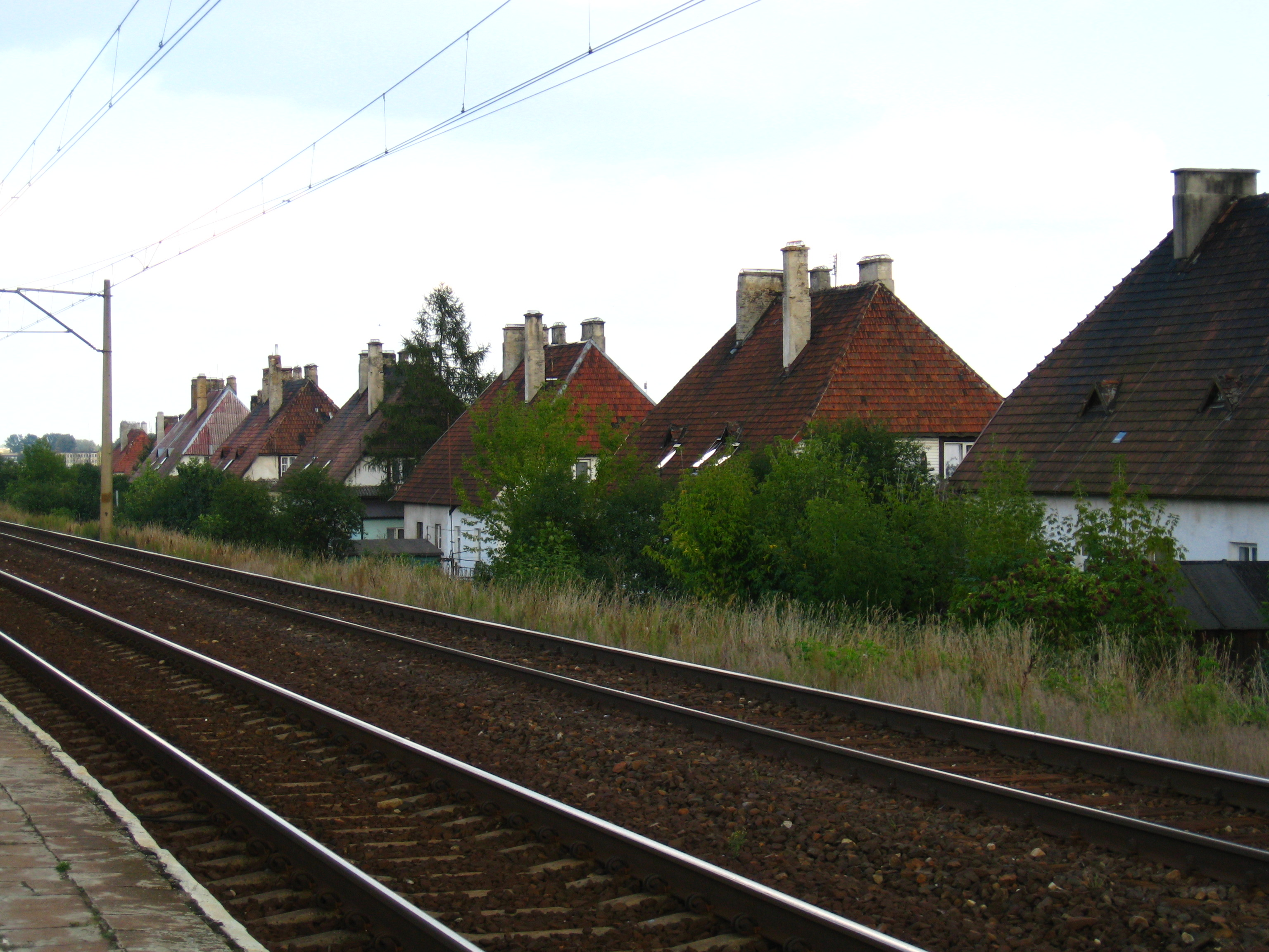 Residential estate of railwaymen: „Osse” — 27 brick houses built in the thirties of 20th century